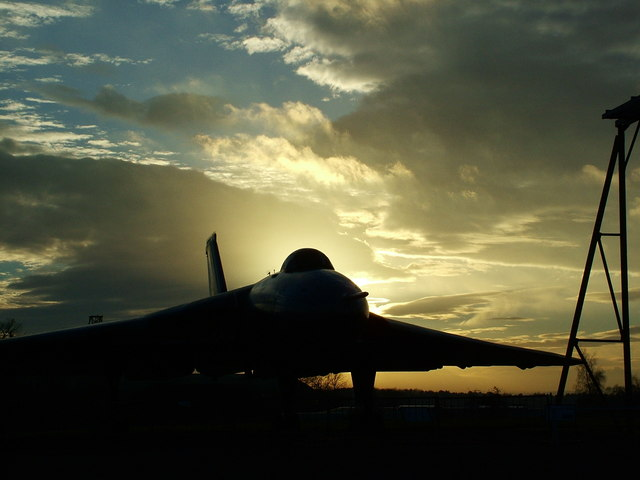 RAF Museum, Cosford Vulcan bomber outside at Cosford before construction of the new COLD WAR MUSEUM.